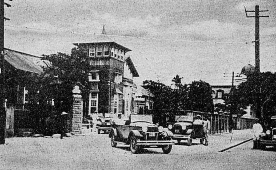 Karenko Prefectural Office